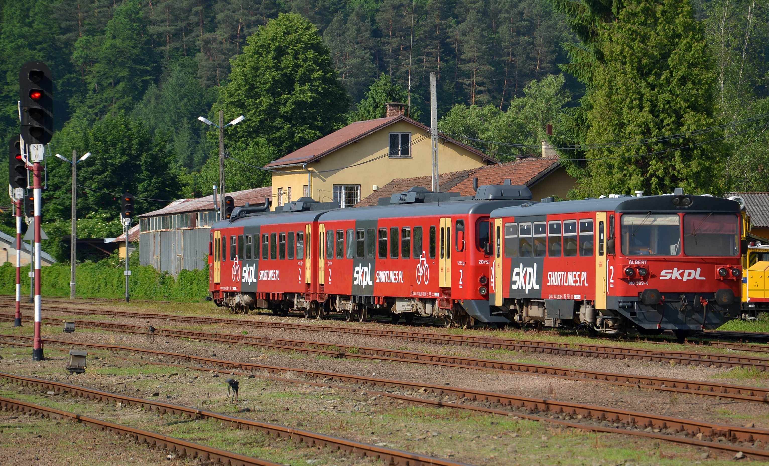 CZ Class 810 (on the right) in Zagórz, Poland